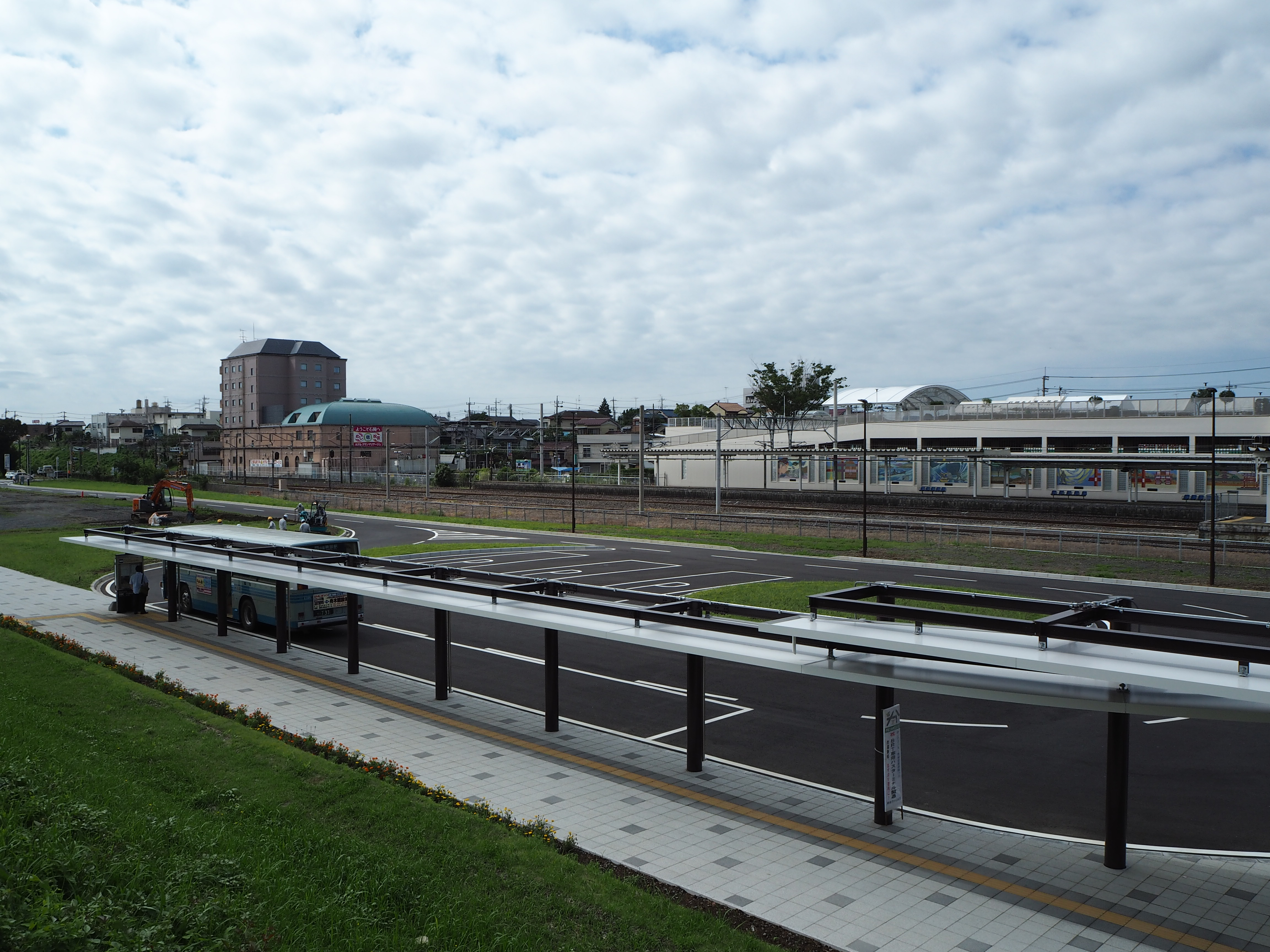 Bus station for BRT, adjacent to Ishioka Station